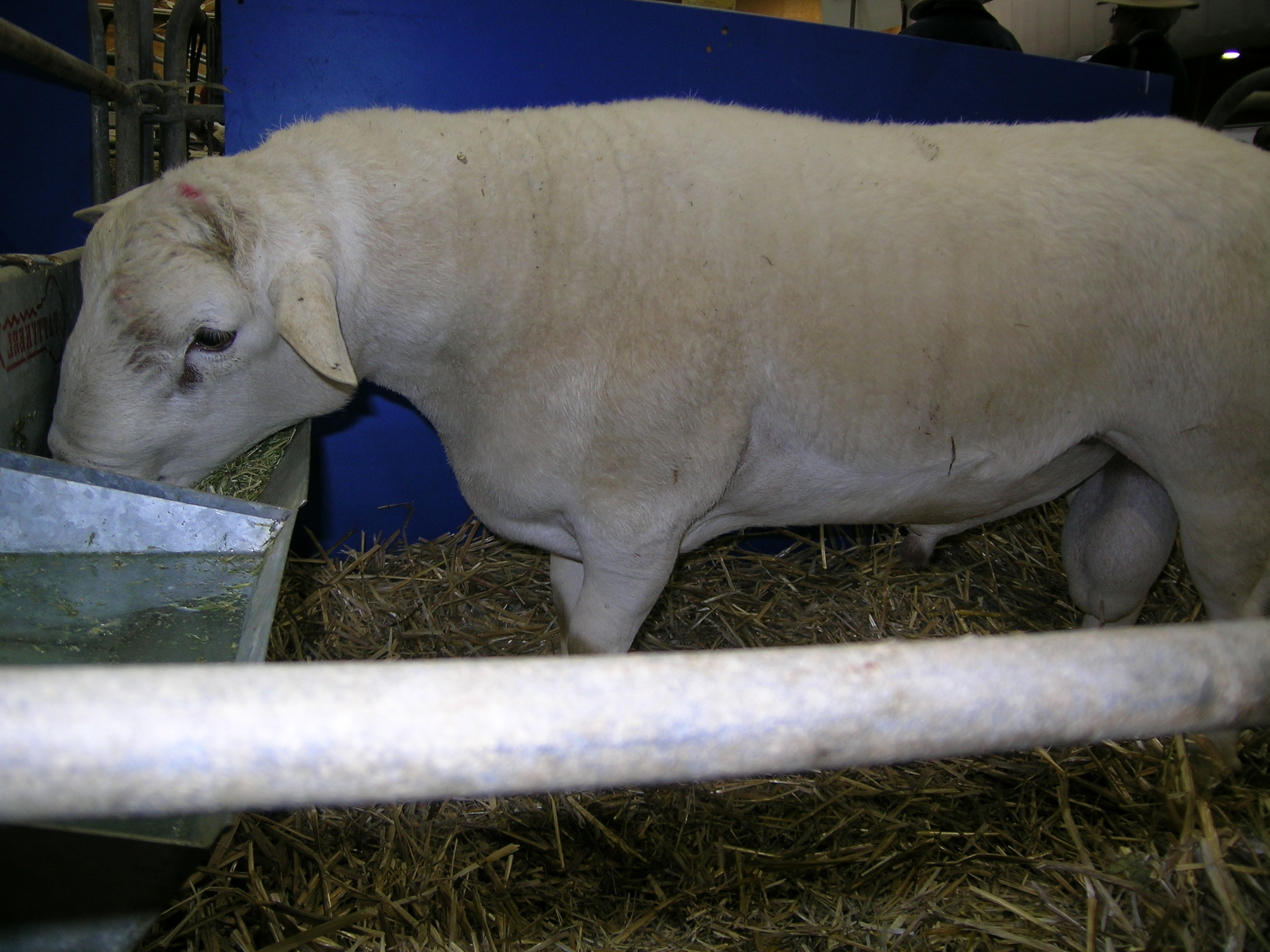 An Australian White ram at the Sydney Royal Easter Show.